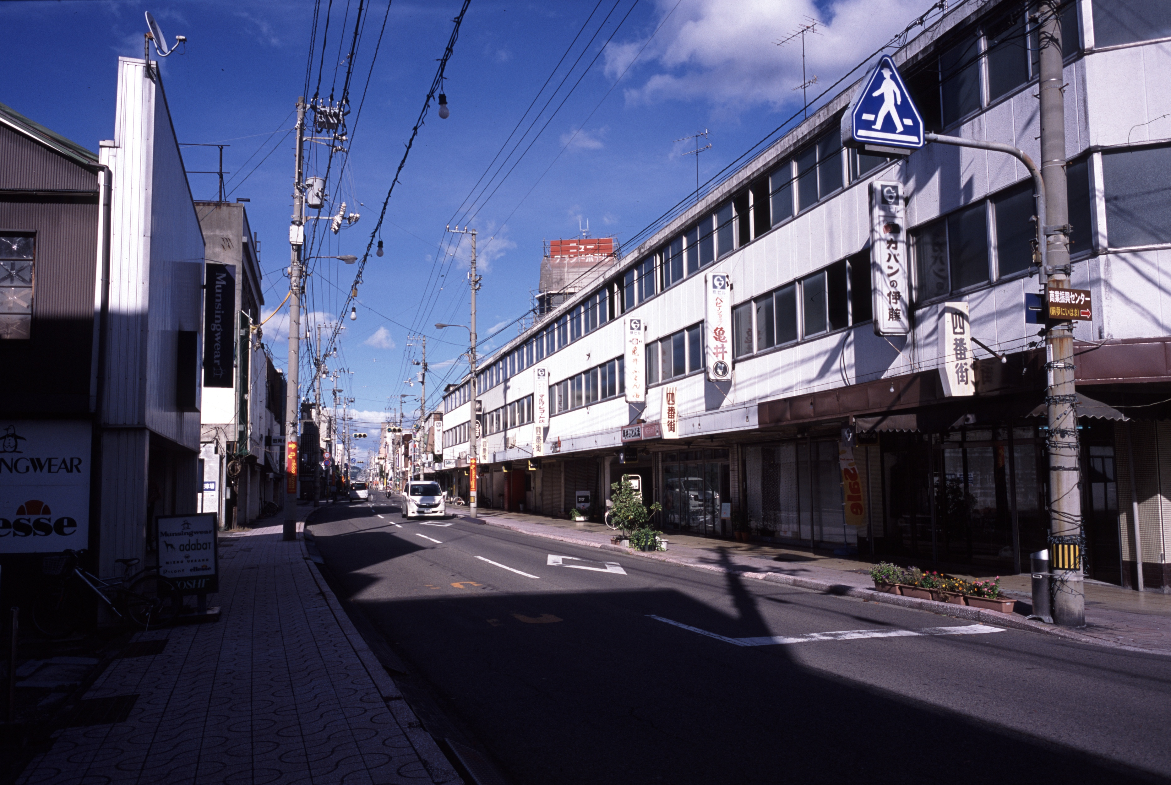 Showa-dori 4 bangai in Niihama, Ehime pref., Japan.